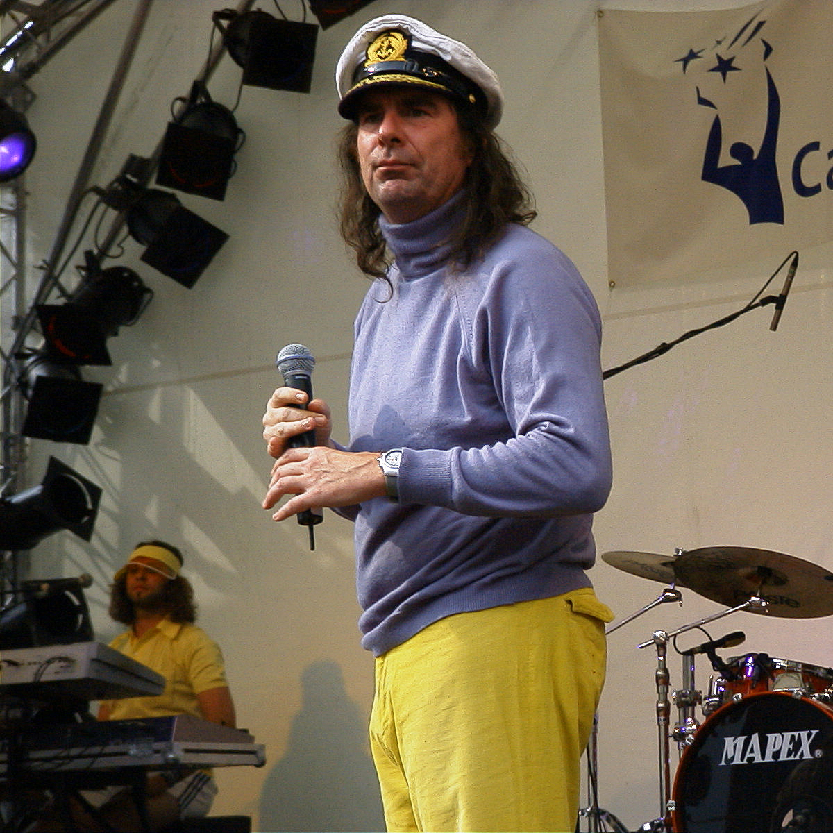 Live gig of Guildo Horn at a city festival in Duisburg, 2003. (Part of the original photo; photographed by BlackIceNRW.)